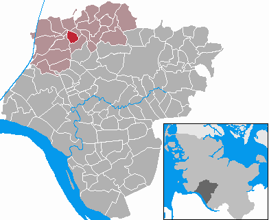 This map shows the area of the municipality Nienbüttel in the Kreis (district) Steinburg, Schleswig-Holstein, Germany.